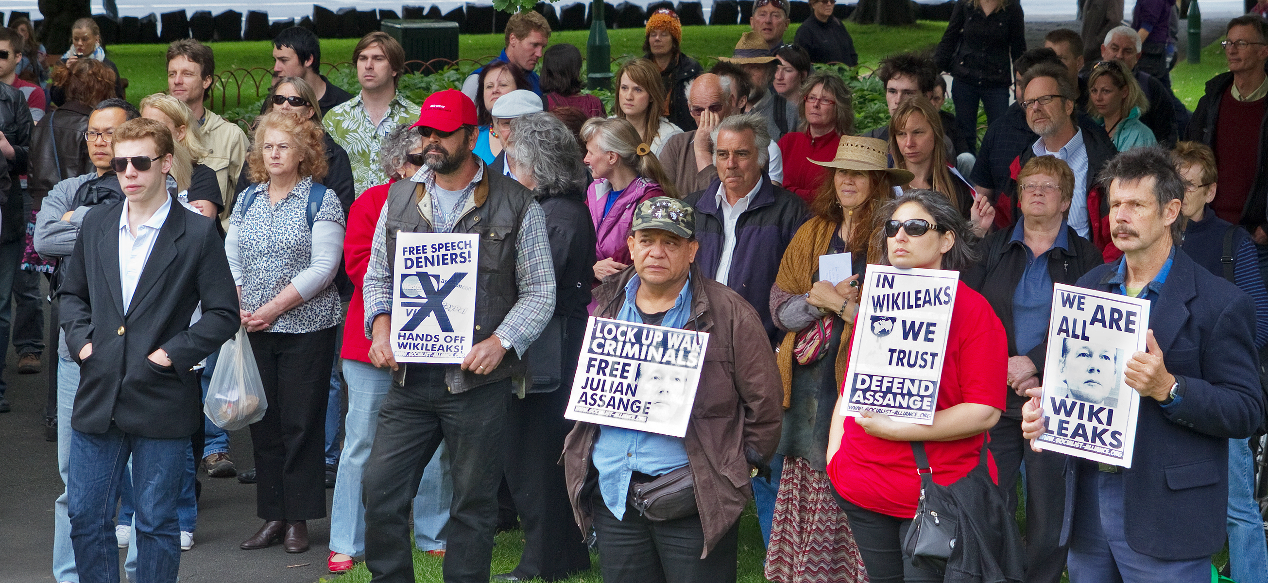 Rally against the treatment of Julian Assange by the Australian Government, Parliament House Lawns, Hobart, Tasmania, Australia